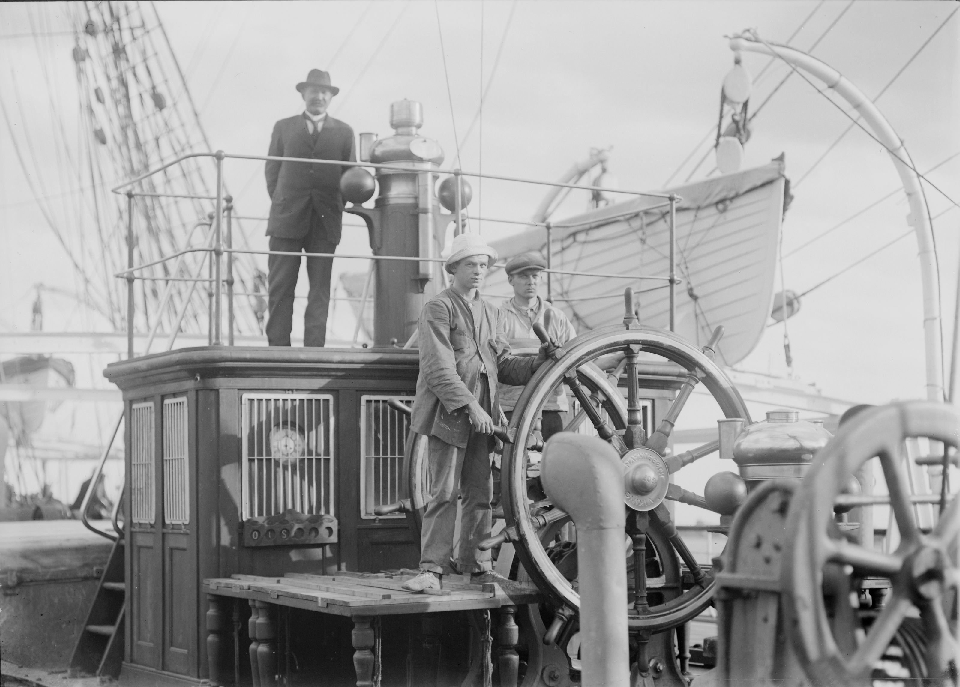 Viking, under Dannish flag.